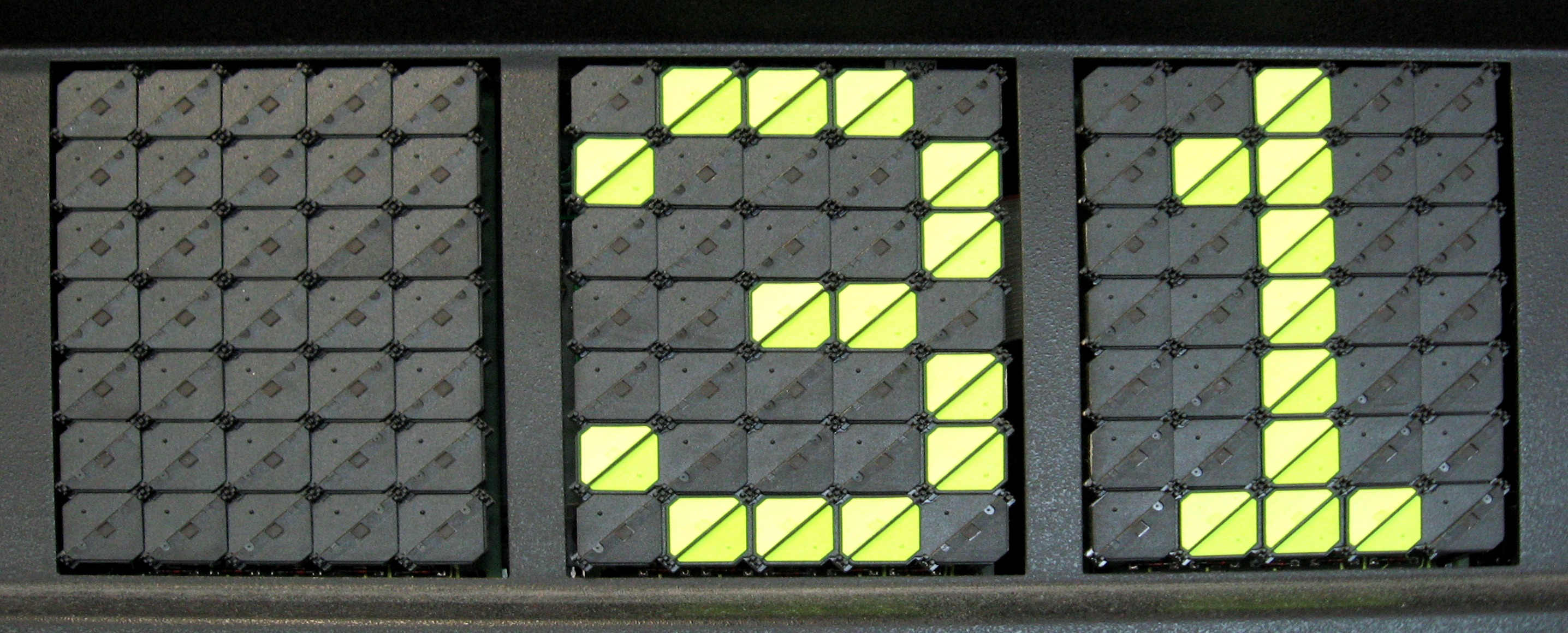 Flip-dot display own photograph / all rights released